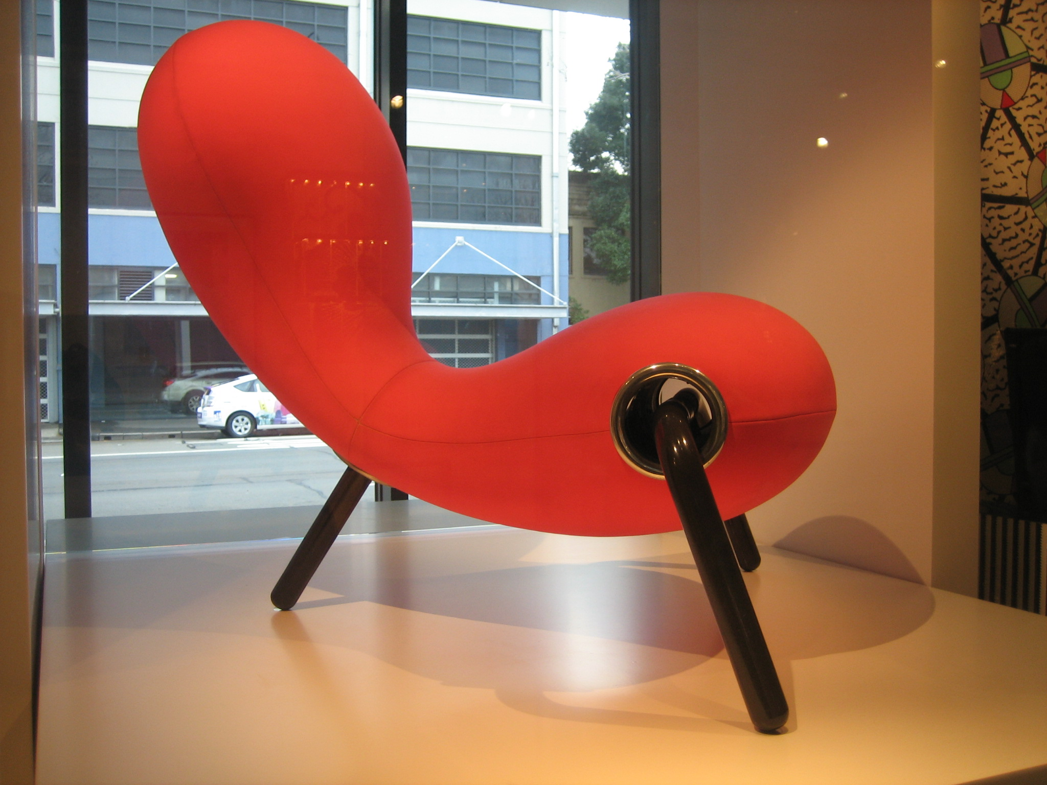 Marc Newson (Australian, born 1963): Embryo, 1988, aluminium chair, neoprene seating, Powerhouse Museum, Sydney, New South Wales, Australia.Embryo Chair